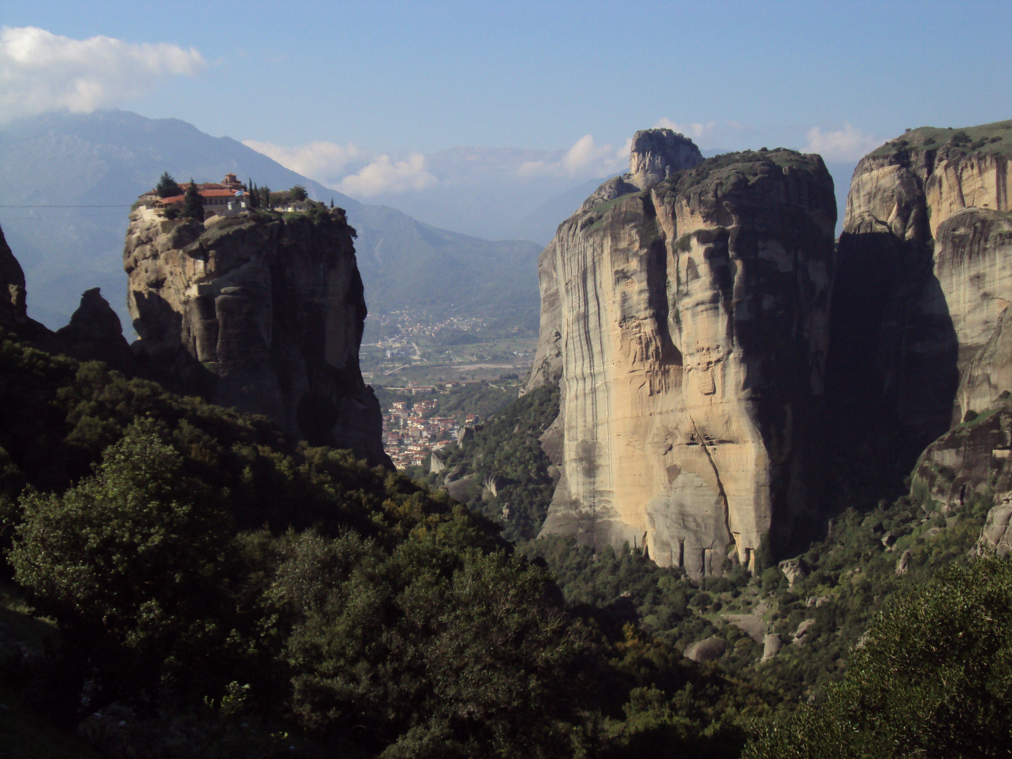 Meteora